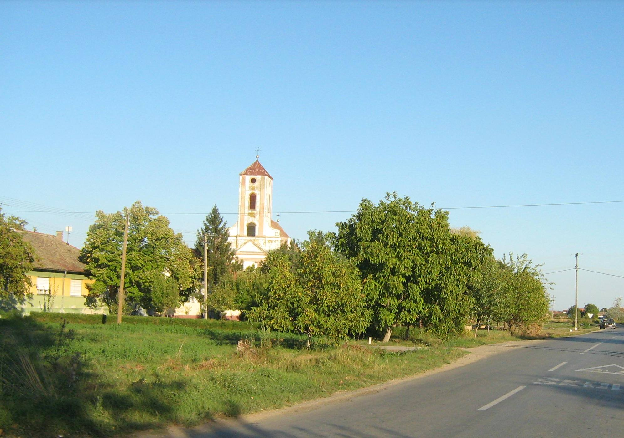 Church in Deč, near Pećinci, Vojvodina, Serbia